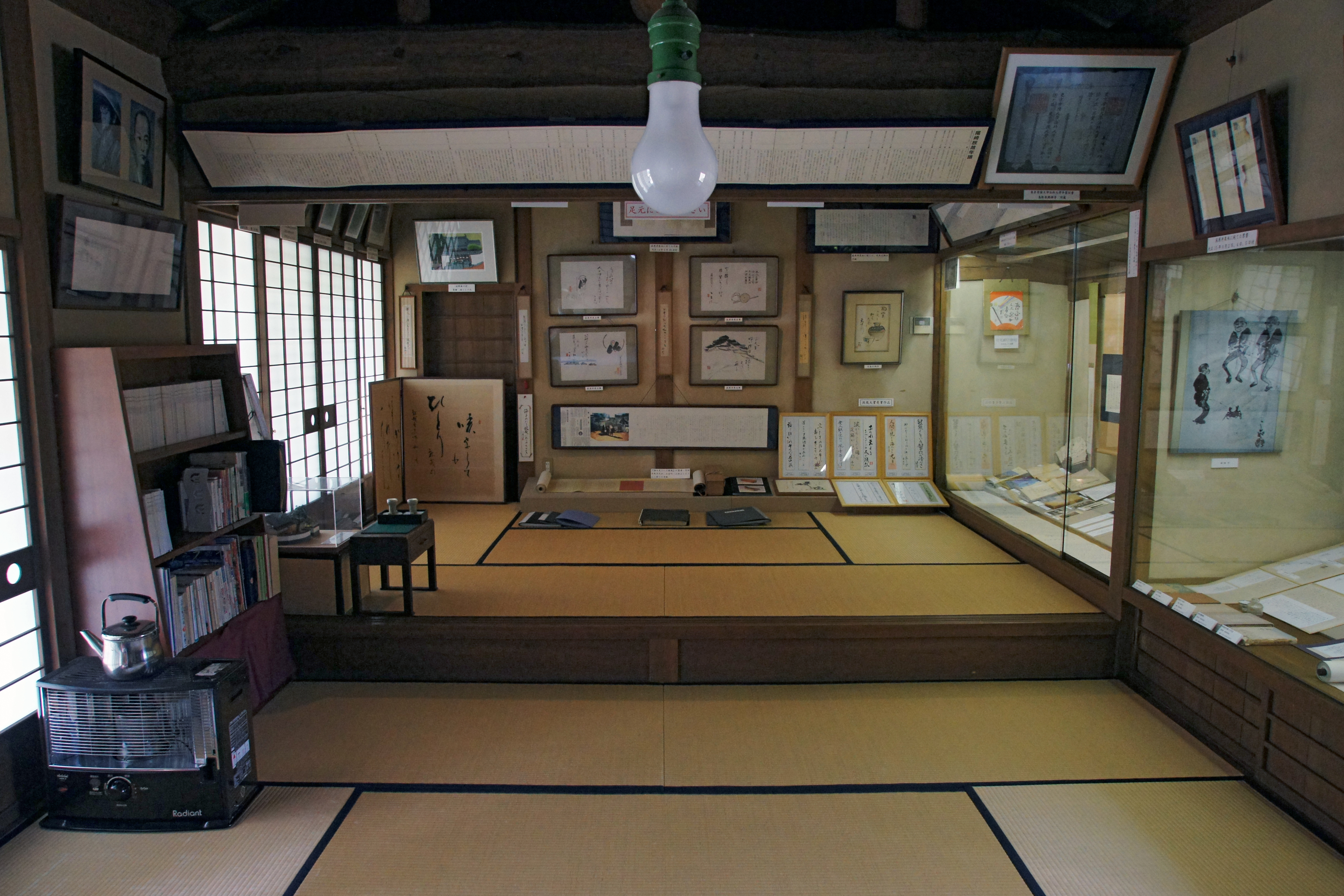 Shodoshima Hosai Ozaki Memorial Museum in Shodo Island, Tonosho, Kagawa Prefecture, Japan